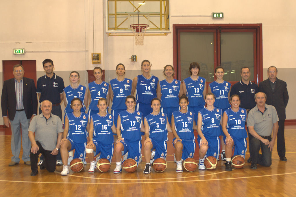 Basket Team Crema, year 2008-2009